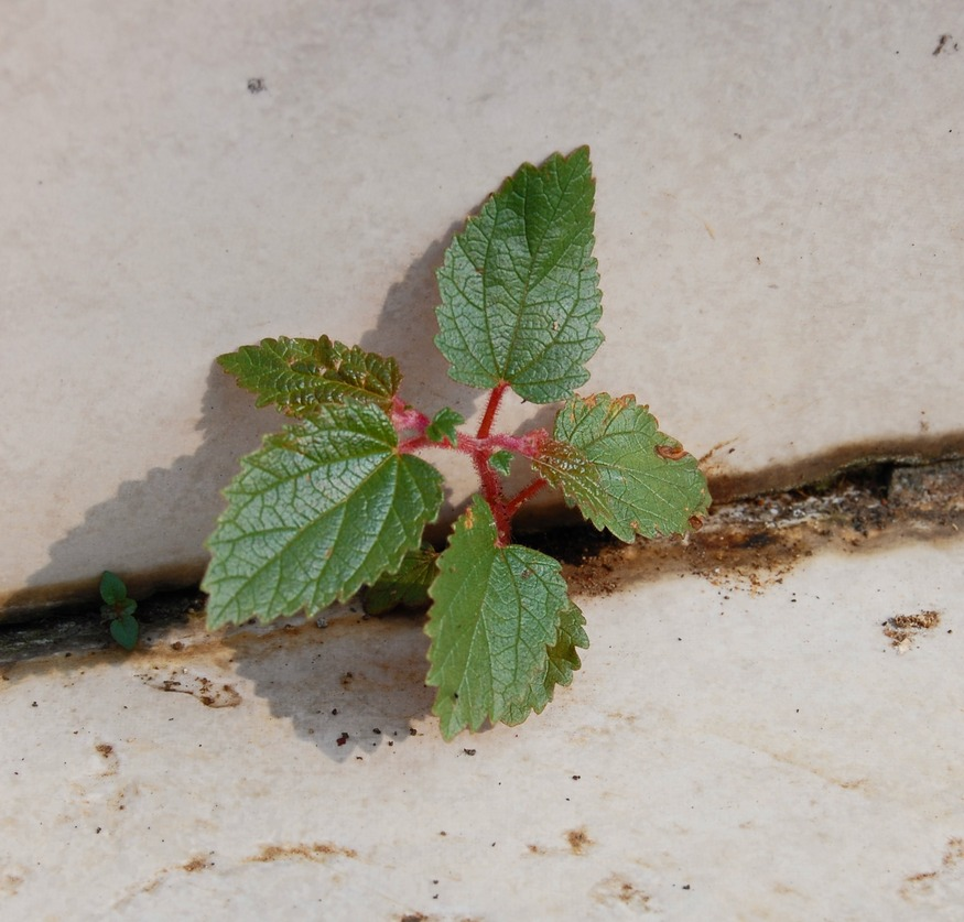 Muntingia calabura seedling, grow at cracked floor; from Darmaga, Bogor, West Java, Indonesia